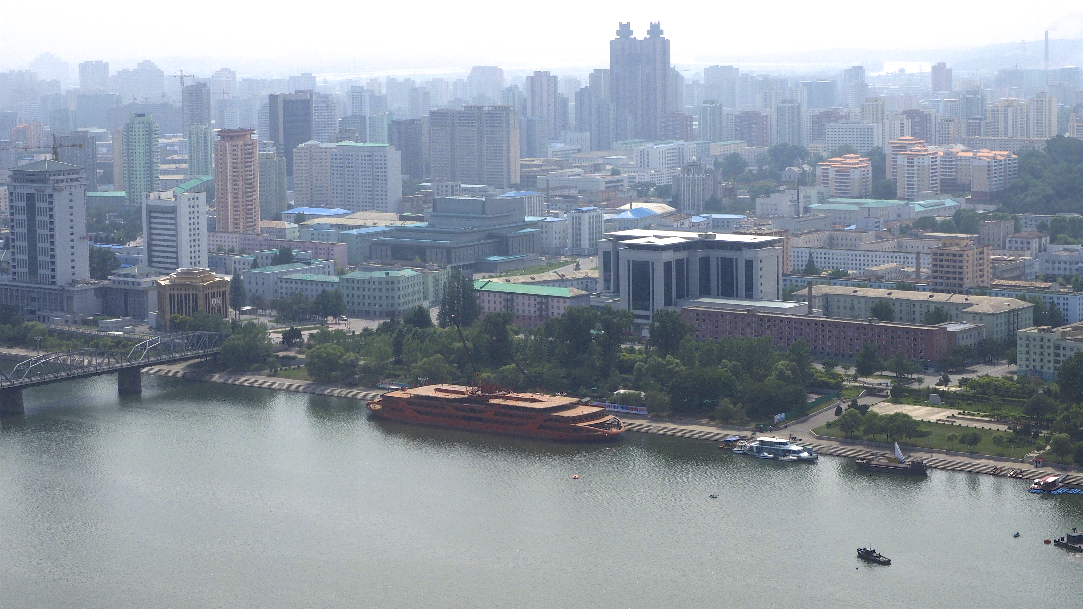 The ship under construction is now called The Rainbow and is a gift from Marshall Kim Jong-un to the Korean People for their pleasure and enjoyment. Congratulations to the people of The DPRK!